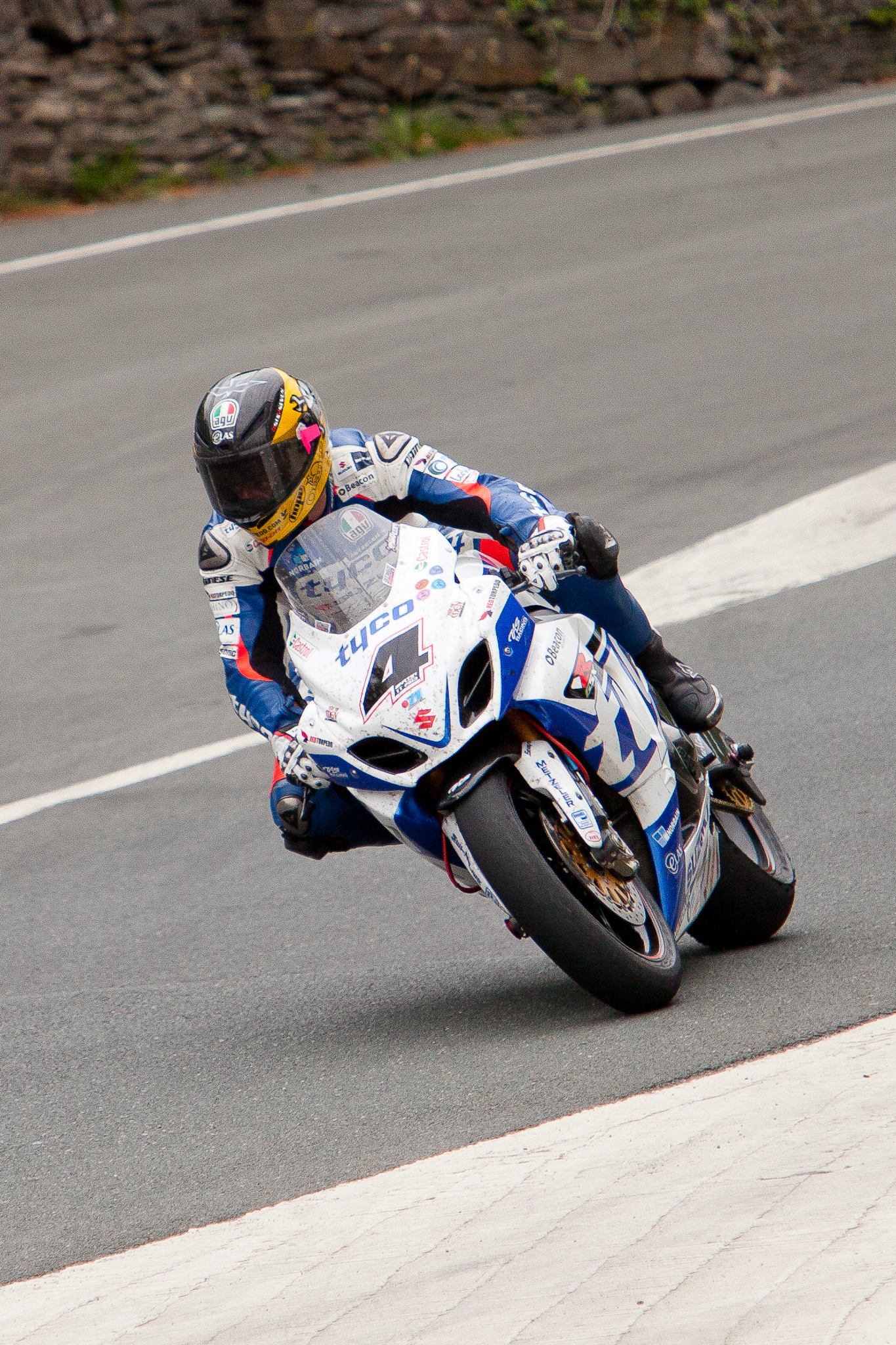 Guy Martin Isle of Man TT - Dainese Superbike TT